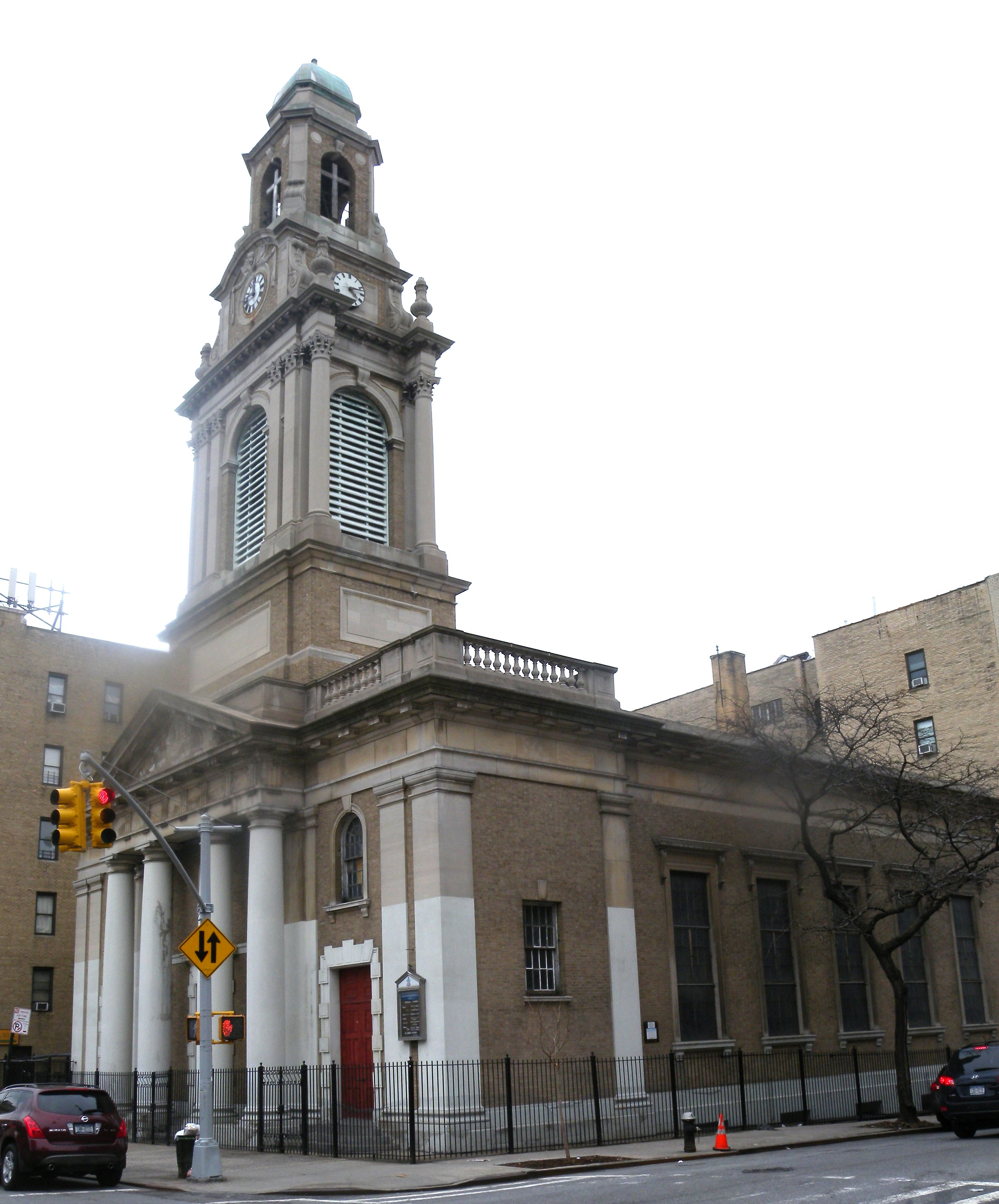 Looking northeast across 174th St and Wadsworth Avenue at Ft Washington Heights Presbyterian Church on a cloudy midday.